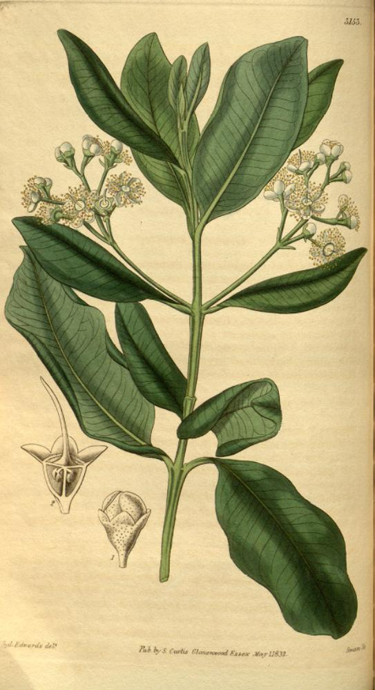 Illustration of Pimenta racemosa (here known as Myrcia acris)